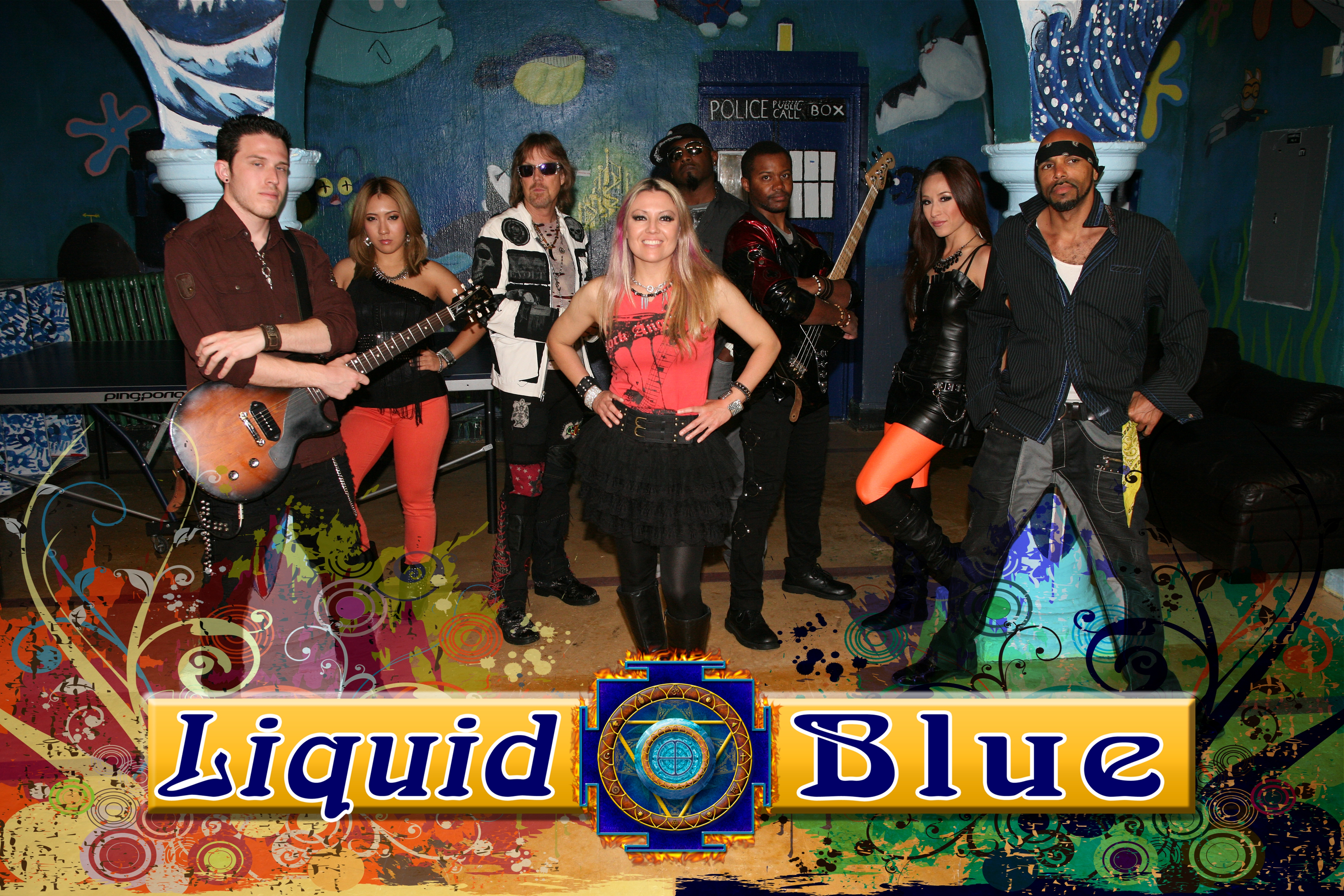 Photo of band Liquid Blue